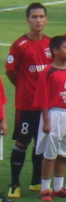 Jakkraphan Kaewprom at Suphachalasai Stadium